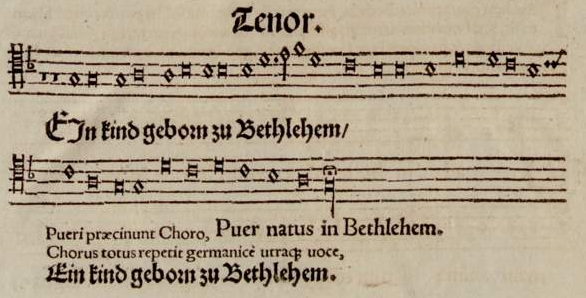 Tenor part of Puer natus from Lucas Lossius: Psalmodia, hoc est cantica sacra veteris ecclesiae, Nürnberg 1553, page XXIX